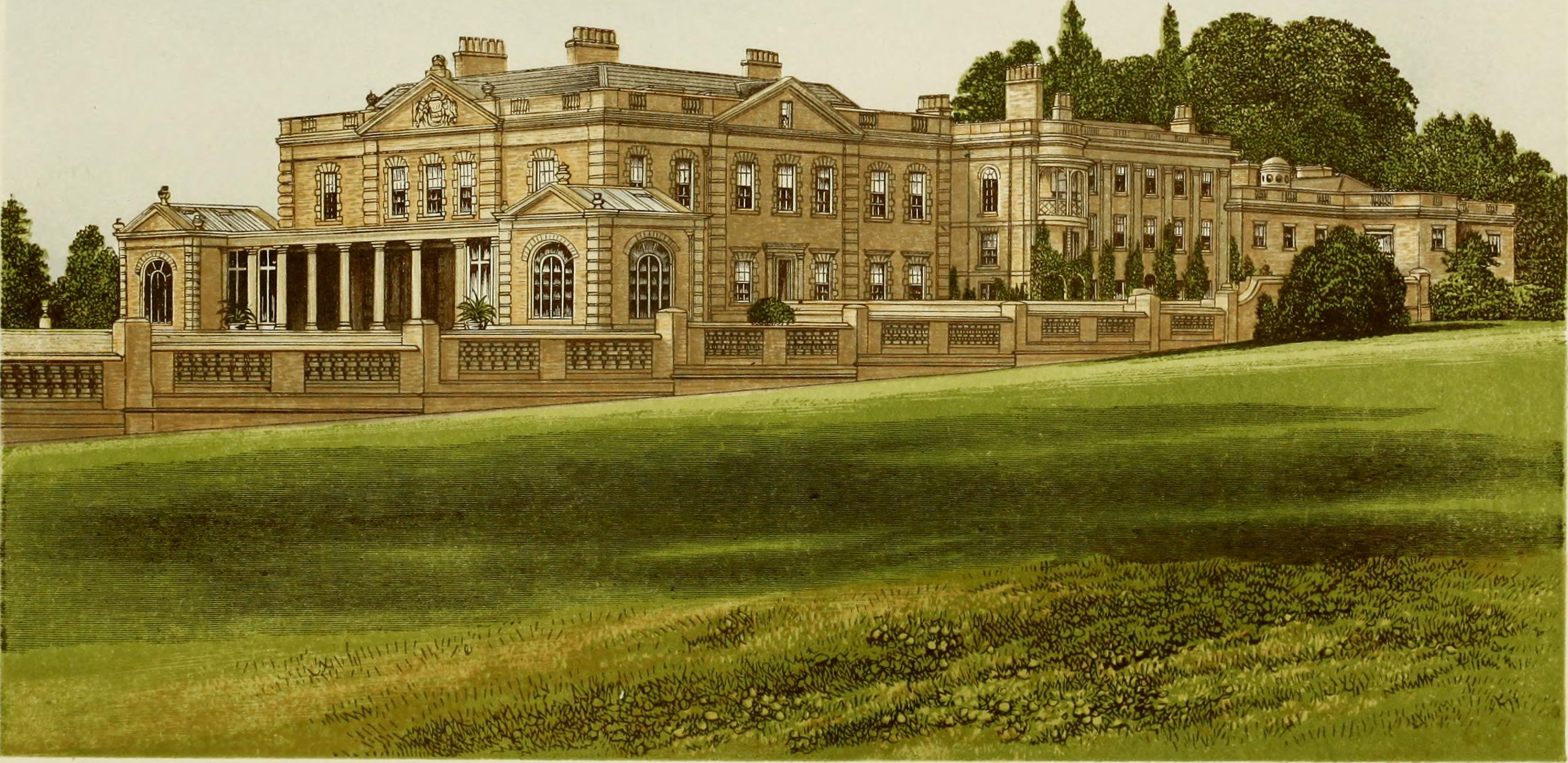 Title: A series of picturesque views of seats of the noblemen and gentlemen of Great Britain and Ireland. With descriptive and historical letterpress Year: 1840 (1840s) Authors: Morris, F. O. (Francis Orpen), 1810-1893 Subjects: Historic buildings Historic buildings Publisher: London (etc.) W. Mackenzie Text Appearing Before Image: ' Text Appearing After Image: GUNTON PARK, NEAR AYLSHAM, NORFOLK. LORD SUPFIELD. GuNTON Park^ about five miles from the town of Aylsham, and four miles north-west of North Walsham, is beautifully situated on an eminence surrounded byextensive plantations, well laid out. The mansion is in every respect a handsome habitation. The parish Church is situated not far from the house, and is adorned with anelegant portico in the Doric style of architecture. This church was rebuilt by SirWilliam Morden Harbord, Baronet, who became heir to the estate on the death ofHarbord Harbord, Esq., in the year 1742. The parochial Church at Thorpe Market, a village within one mile of GantonPark, was rebuilt by the late Lord Sufl&eld. ^In it the architect has combinedsimplicity with elegance. It is built of fliut and freestone: at each of the fourcorners is a turret, and the points of the gables are terminated by a stone cross;the interior displays a considerable degree of taste, consisting of a single aisle.The windows are ornament